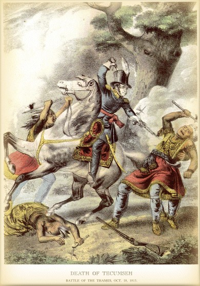 "The death of Tecumseh" lithography shows Richard Mentor Johnson shooting Tecumseh at the Battle of the Thames.